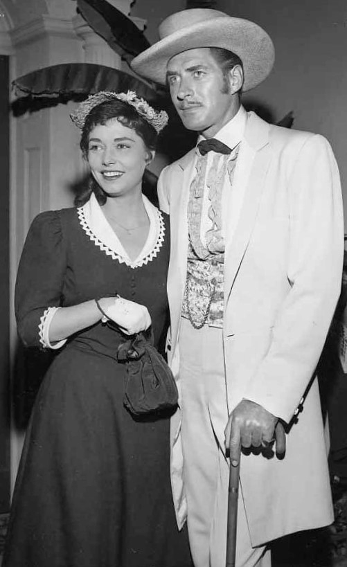 Margaret Fied & Jock Mahoney in the TV series Yancy Derringer, episode A Bullet for Bridget - publicity still (cropped)